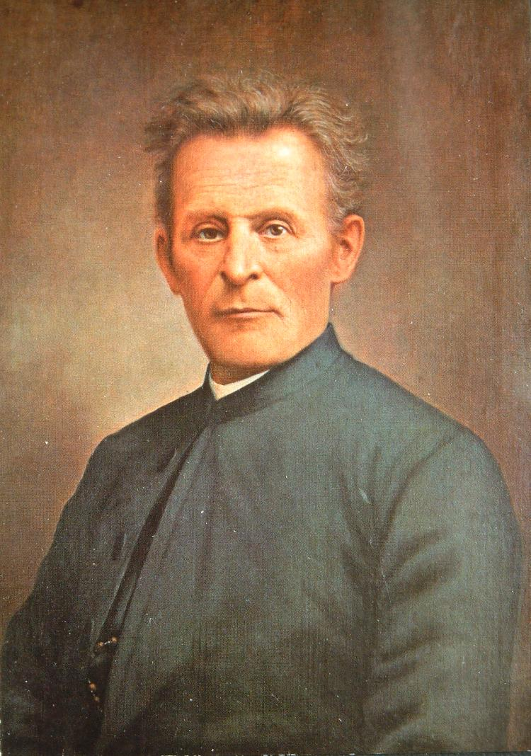 Ludwig Stemmer (1828 – 1908), German priest and physician